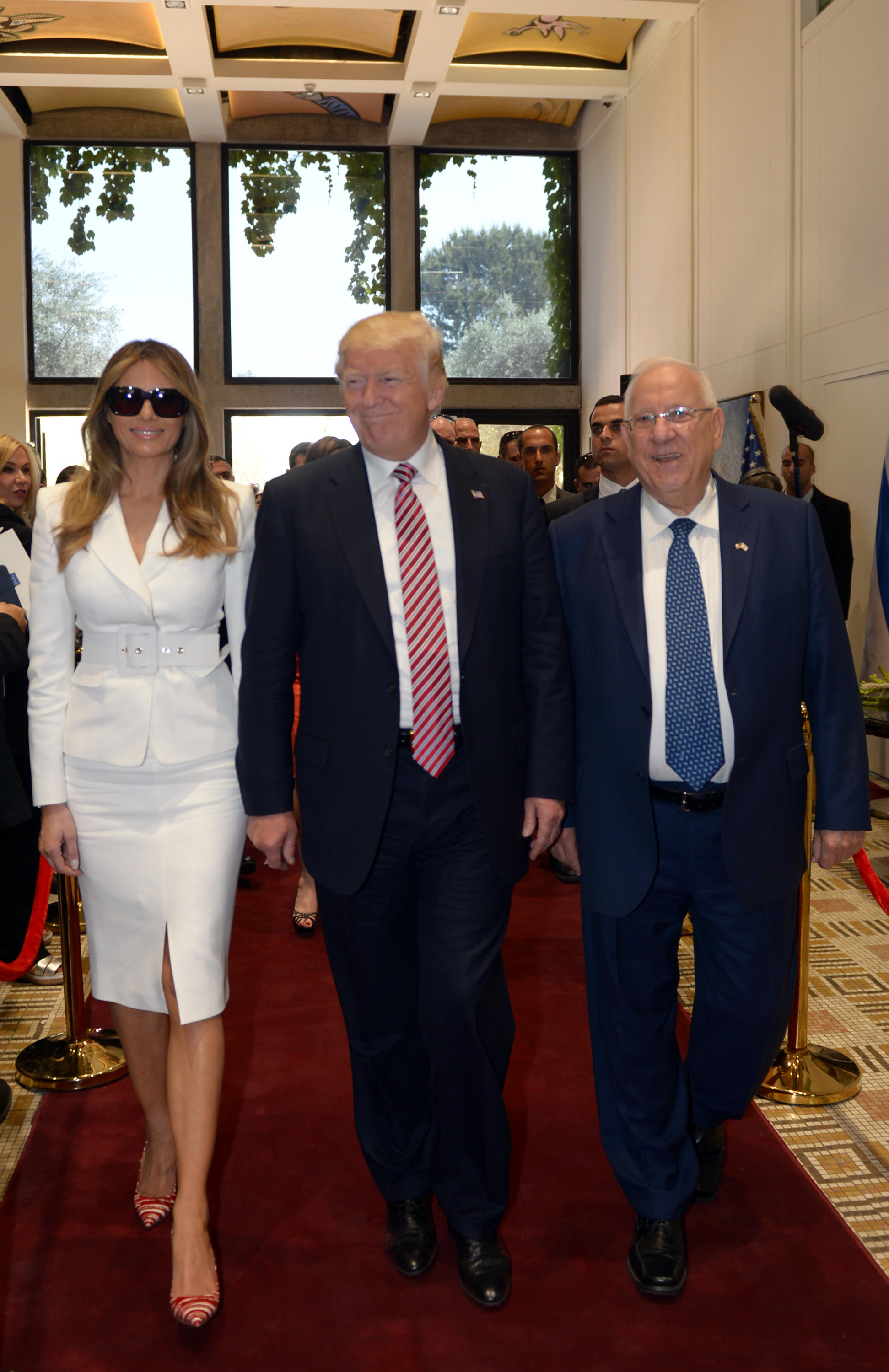 President of Israel Reuven Rivlin, and the President of the United States Donald Trump and his wife Melania, in Mishkan HaNassi, the official residence of the President of Israel in Jerusalem